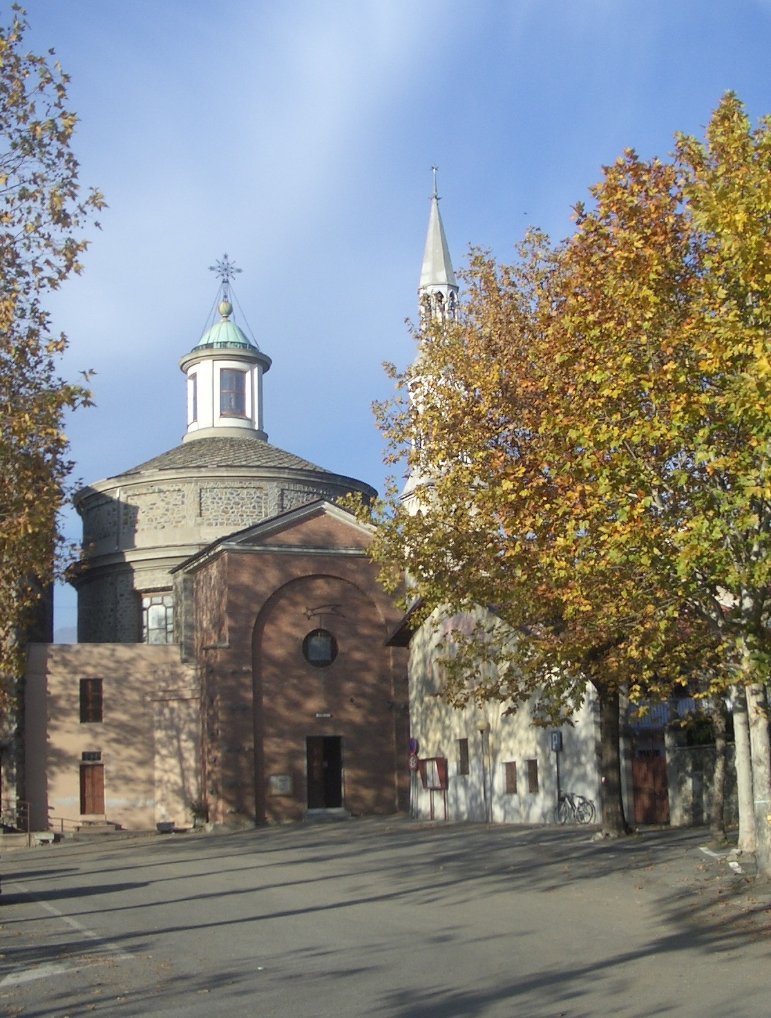 ==Summary" Ivrea, The church of Monte Stella